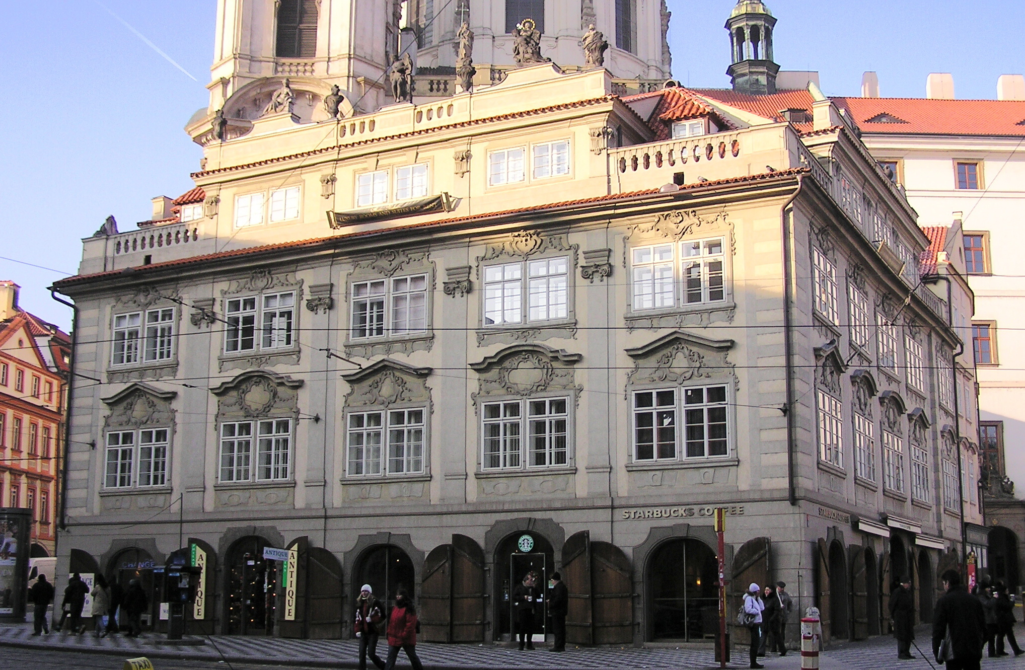 Grömlingovsky Palace, Prague, Czech Republic